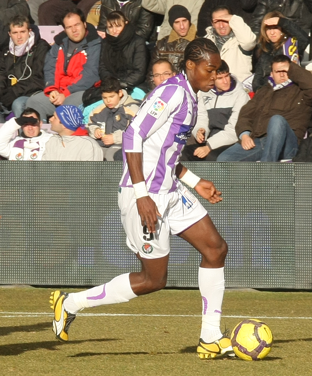 Manucho in the match Real Valladolid-UD Almería.